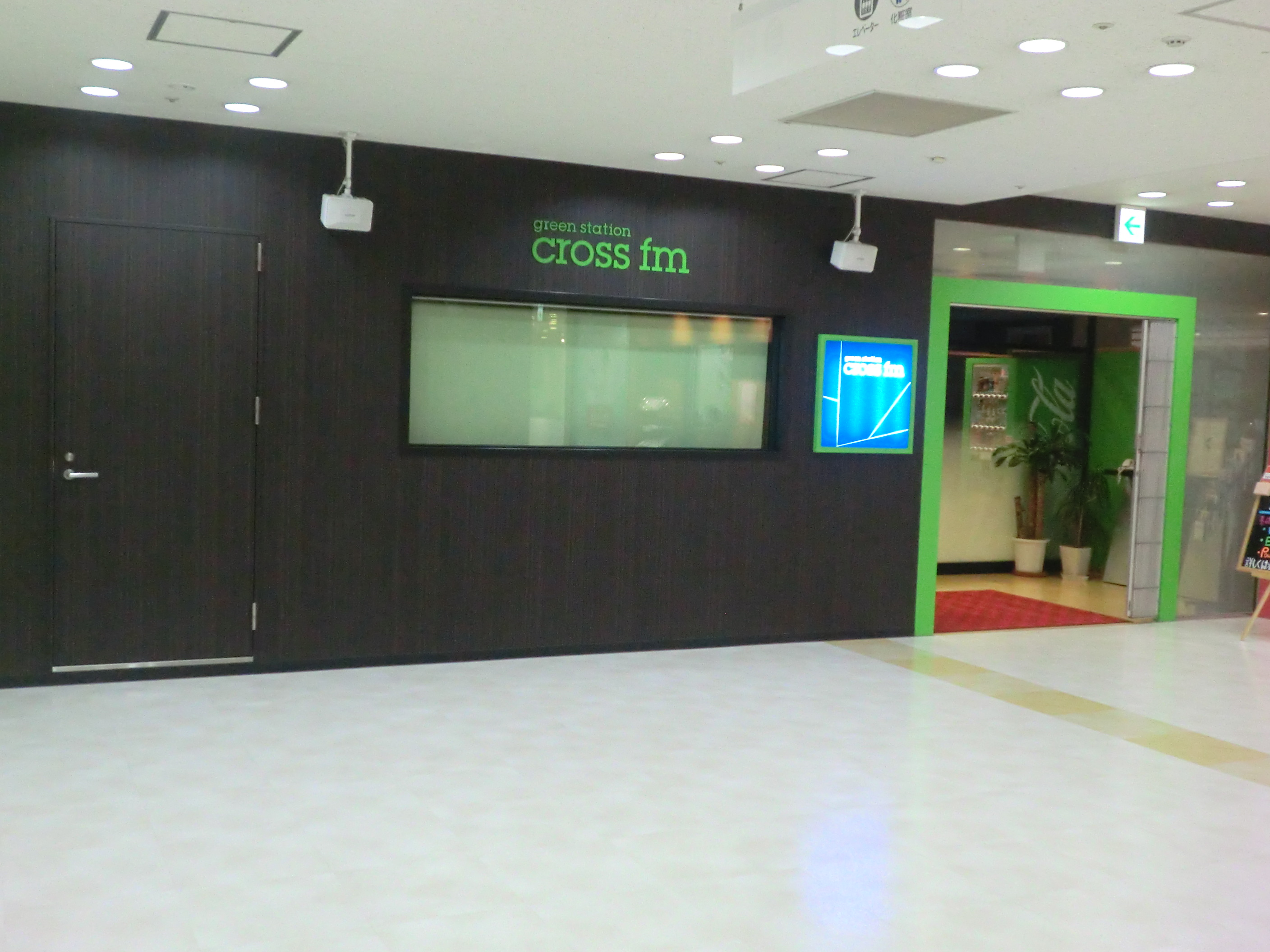 Headquarters of CROSS FM in Kitakyushu, Fukuoka, Japan.